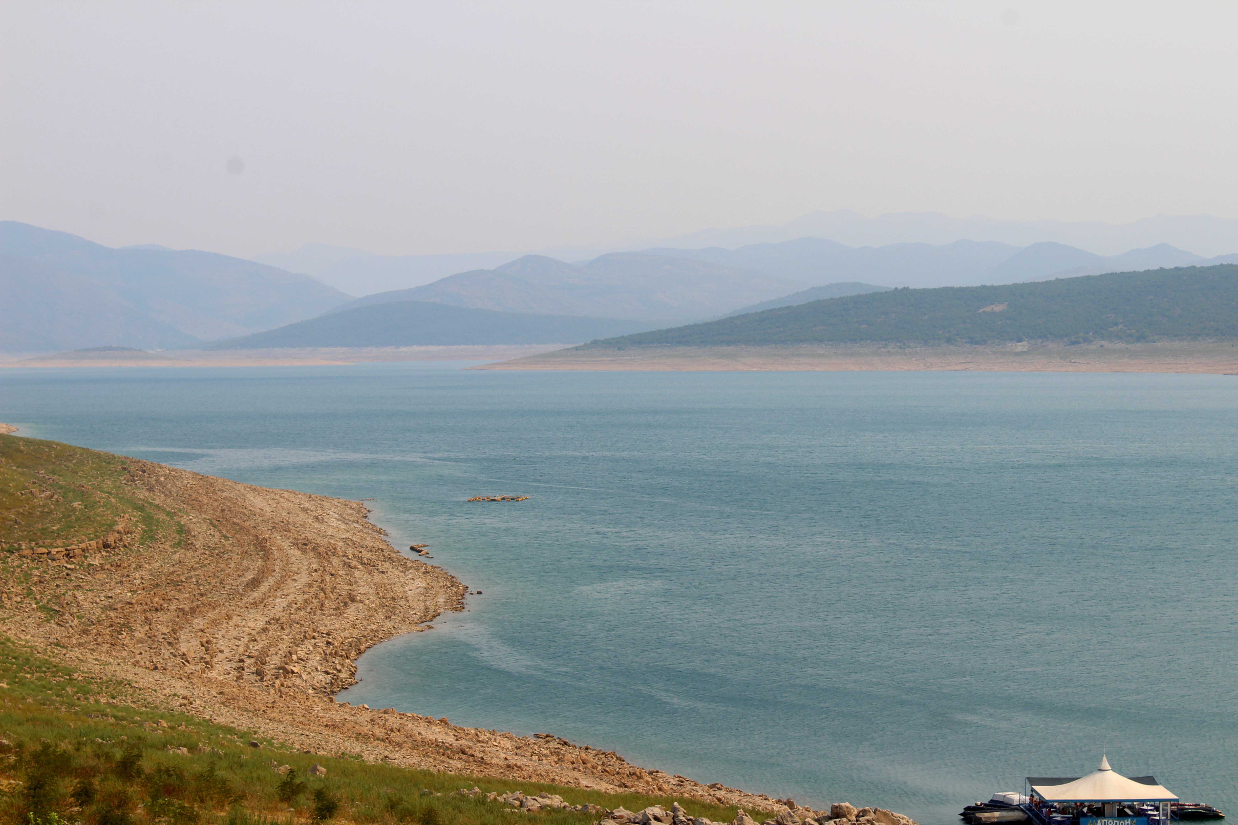 Парк природе Билећко језеро са околином, Билећа ID добра: PPP001